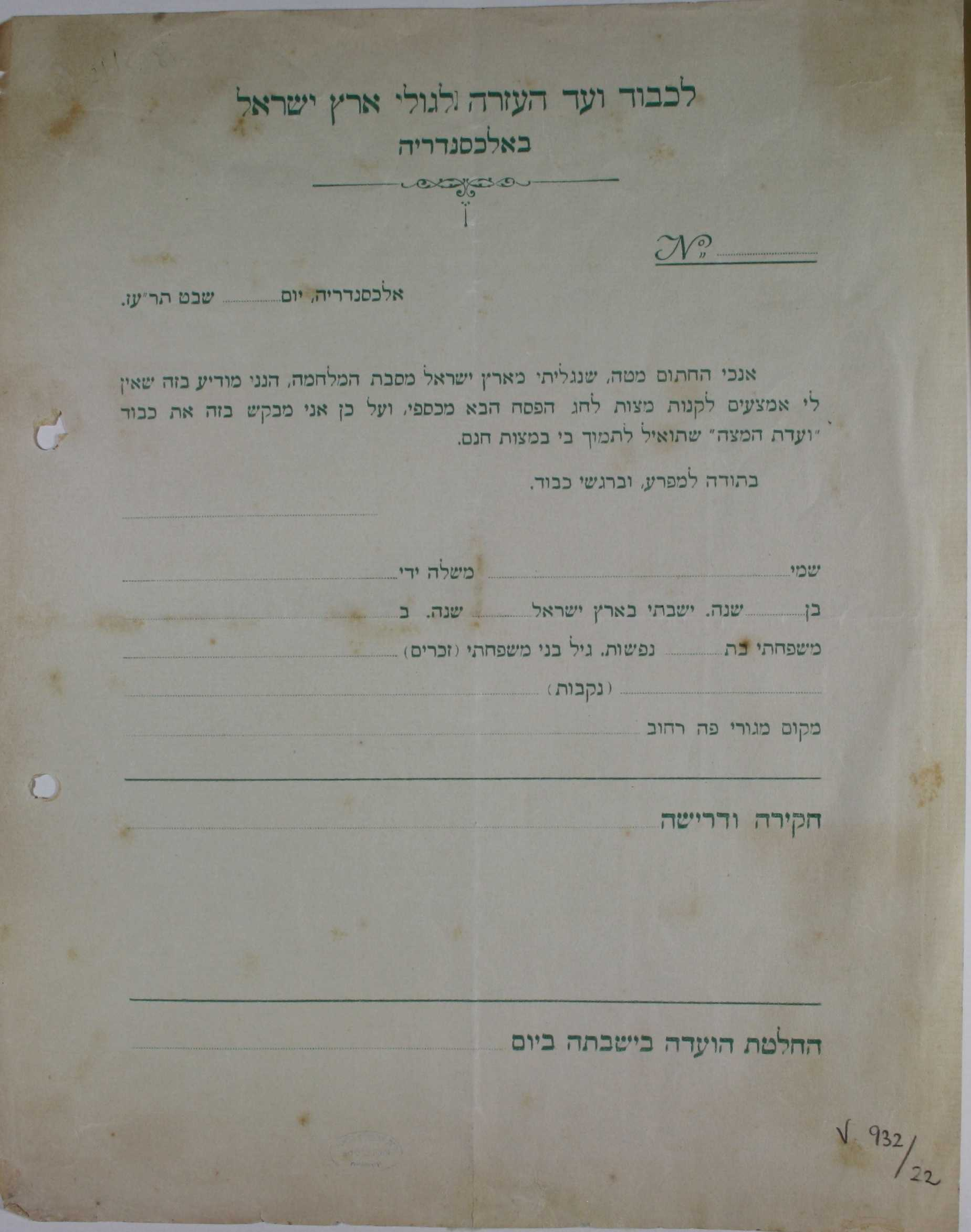 A declaration of poverty, requesting help to buy Matzos for Passover